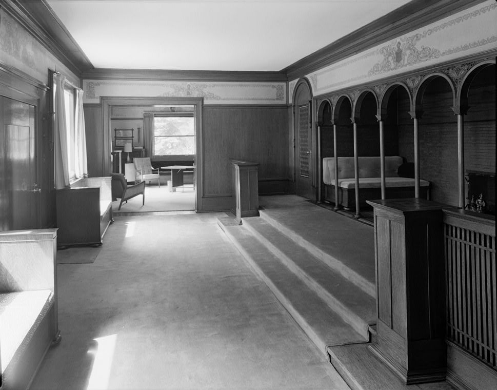 Entrance Hall of William H. Winslow House, Auvergne Place, River Forest, Cook County, Chicago, IL